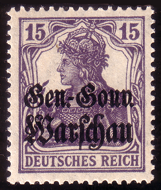 Postage stamp for General-gouvernment Warsaw (Poland), 15 pfennigs, 1916